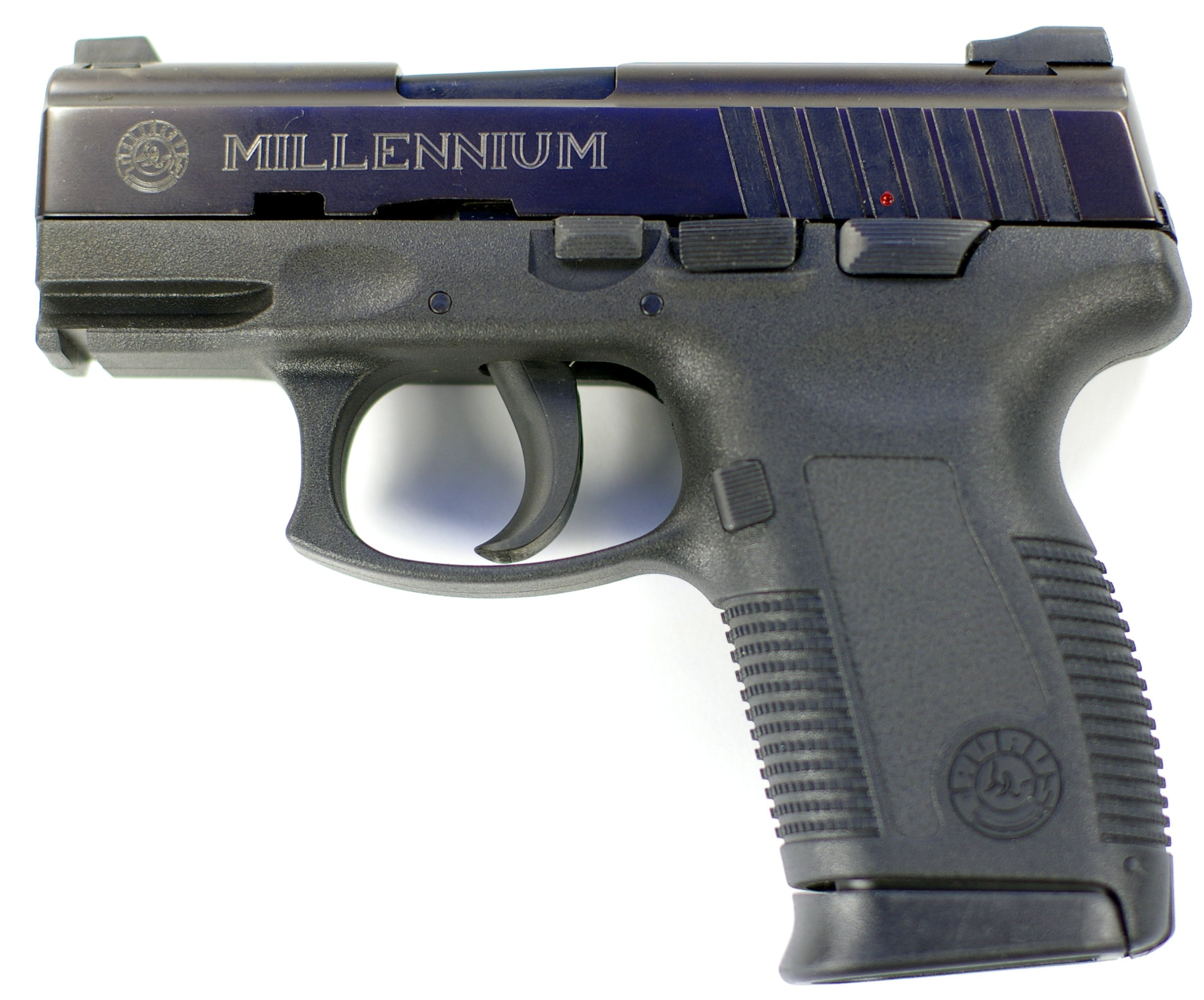 Taurus PT145 Pistol, Blued finish. .45ACP.